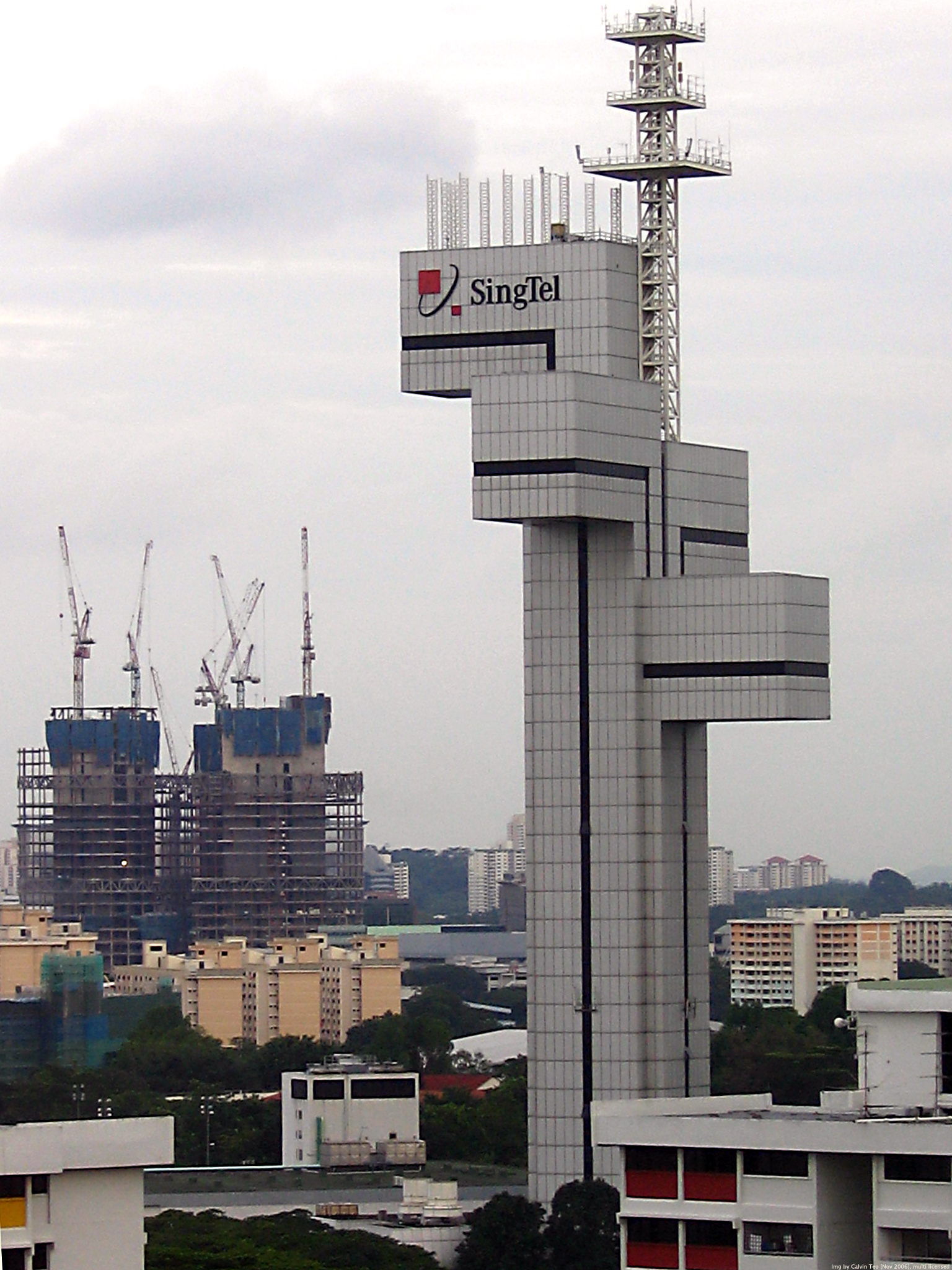 The SingTel Ayer Rajah Telecommunications Tower, Singapore.